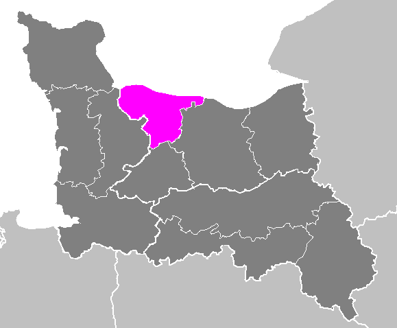 Maps of arrondissements and cantons of France: Arrondissement de Bayeux.PNG